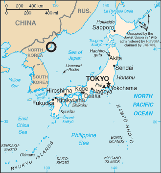 Map of Sea of Japan with circle locating North Korea Tonghae Satellite Launching Ground (previously Musudan-ri) and the text "Sea of Japan" only